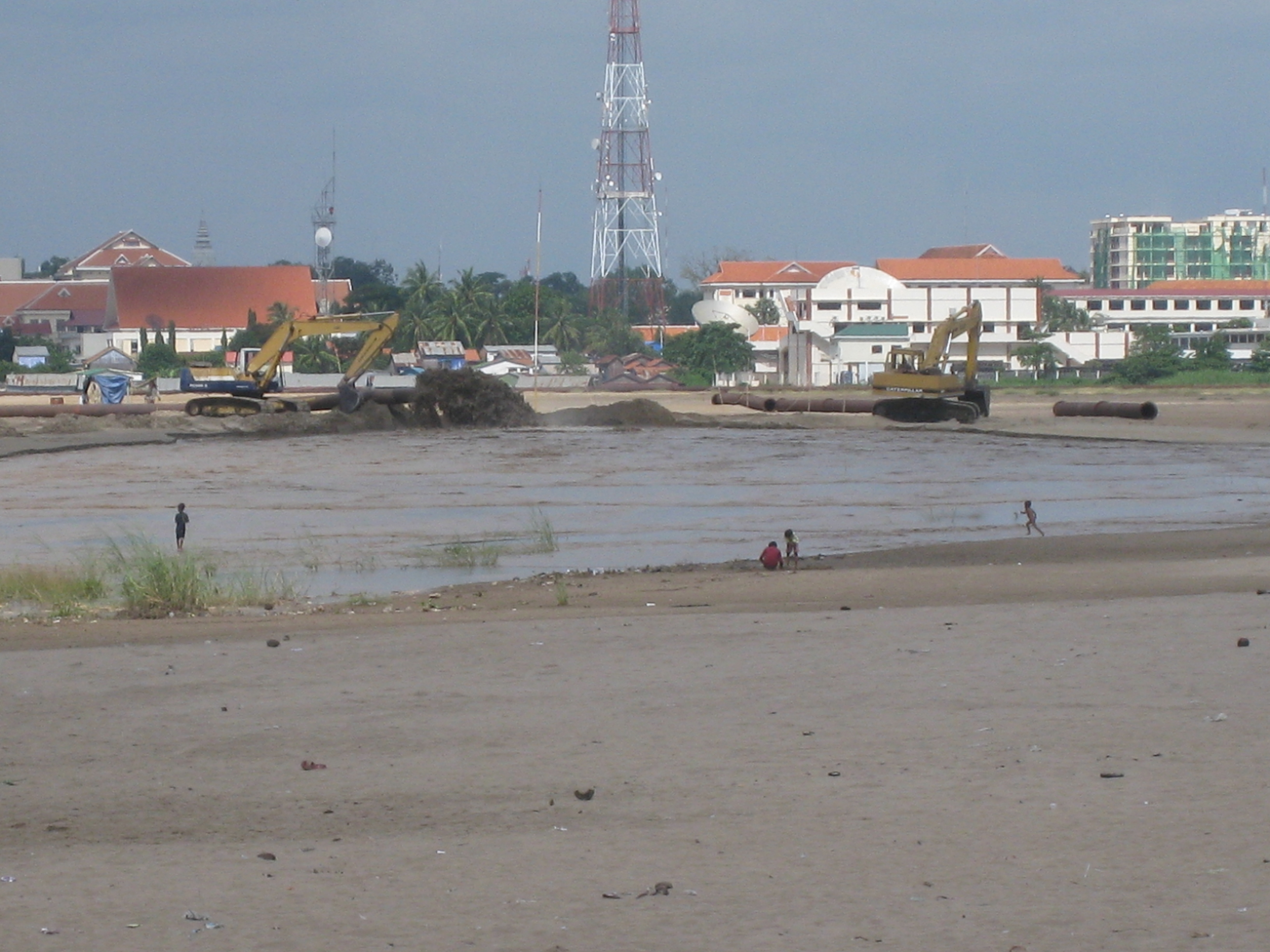 The lake is being filled with sand